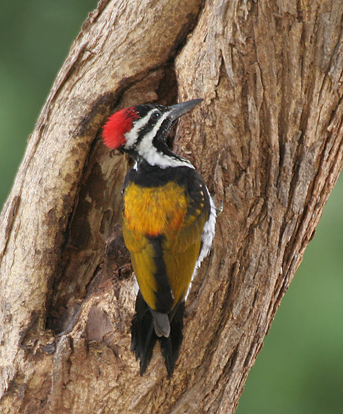 Black-rumped Flameback Dinopium benghalense in Hyderabad , India.